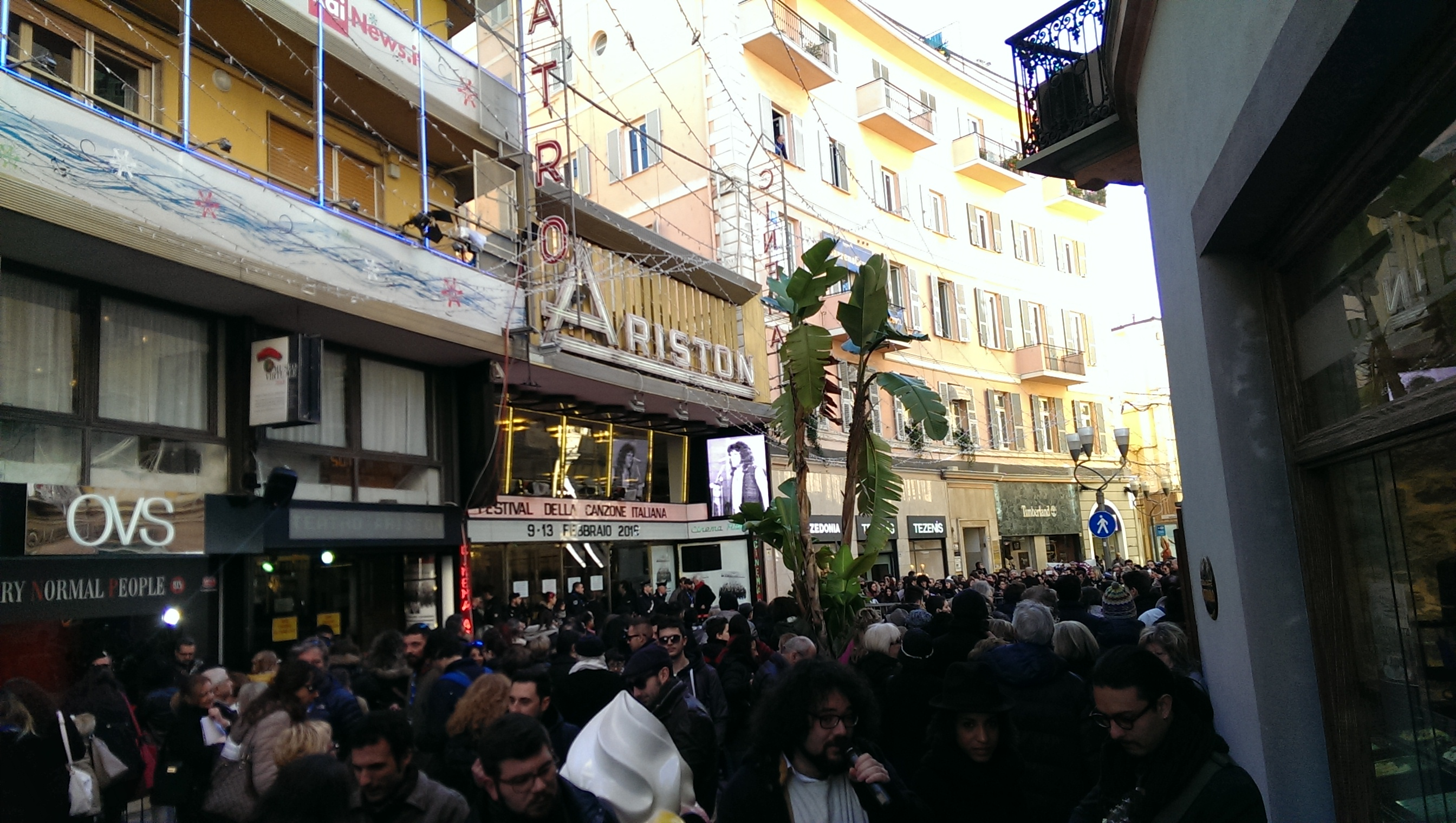 Sanremo 2016